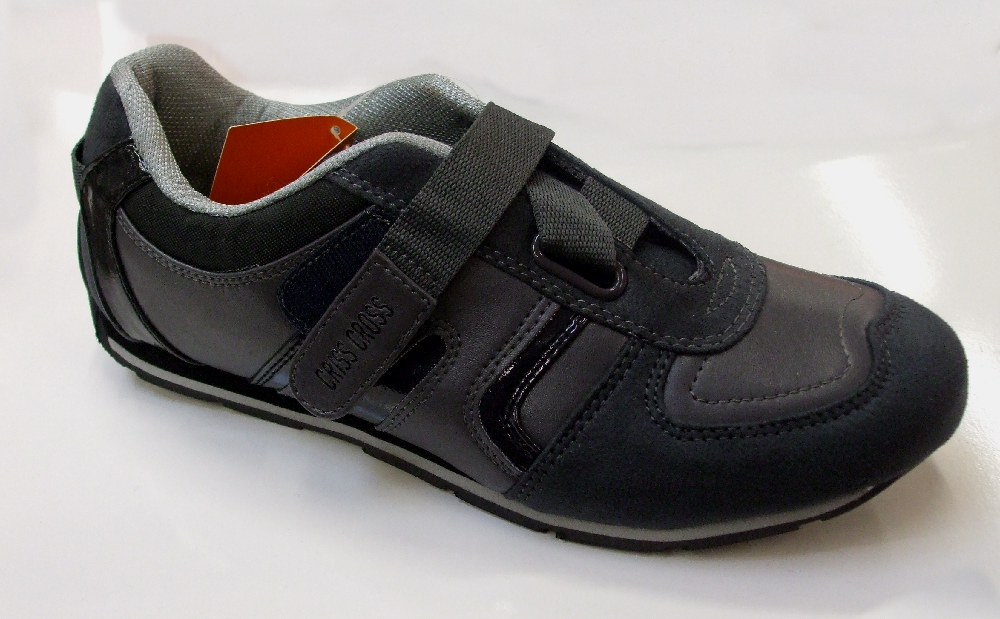 shoelaces with Velcro "klett"